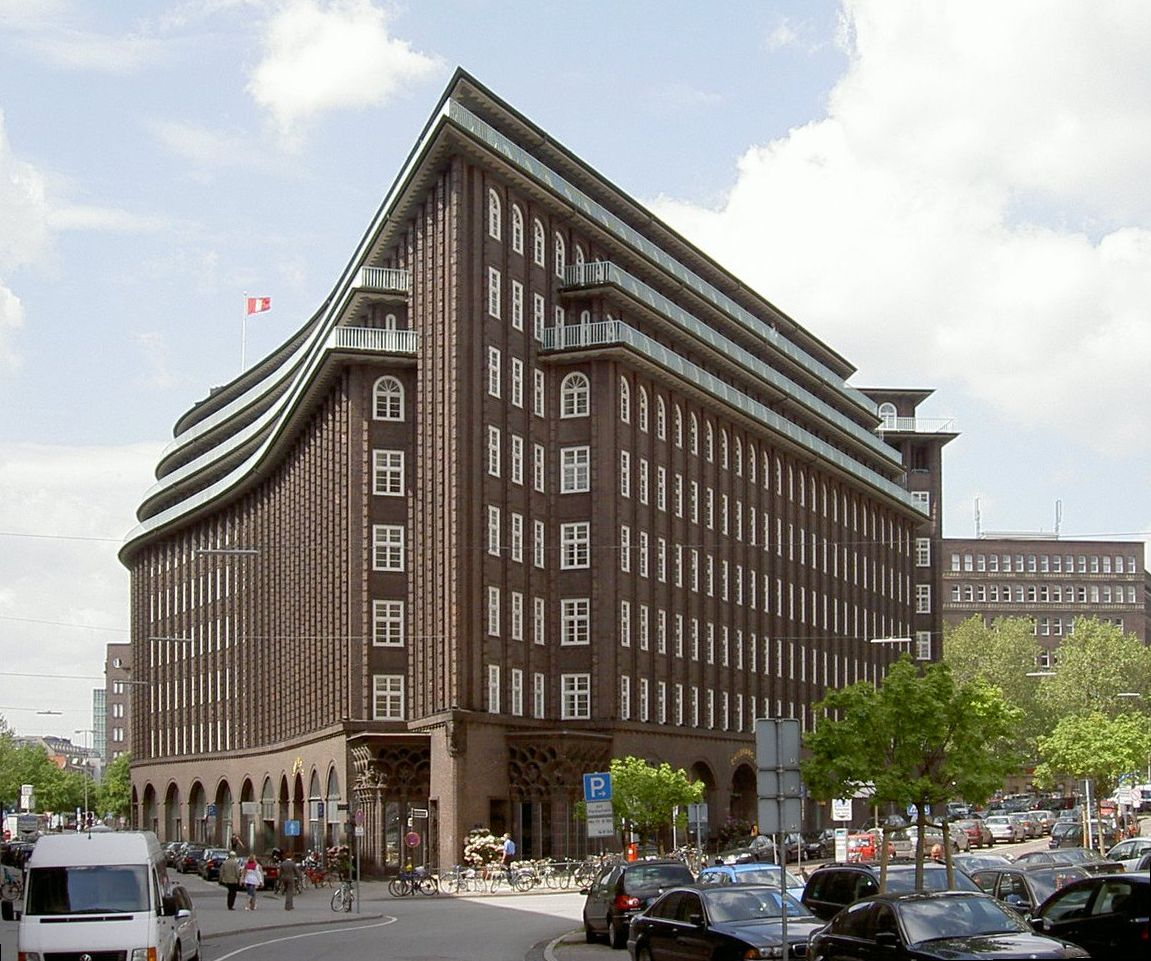 The Chilehaus building in the old city of Hamburg.